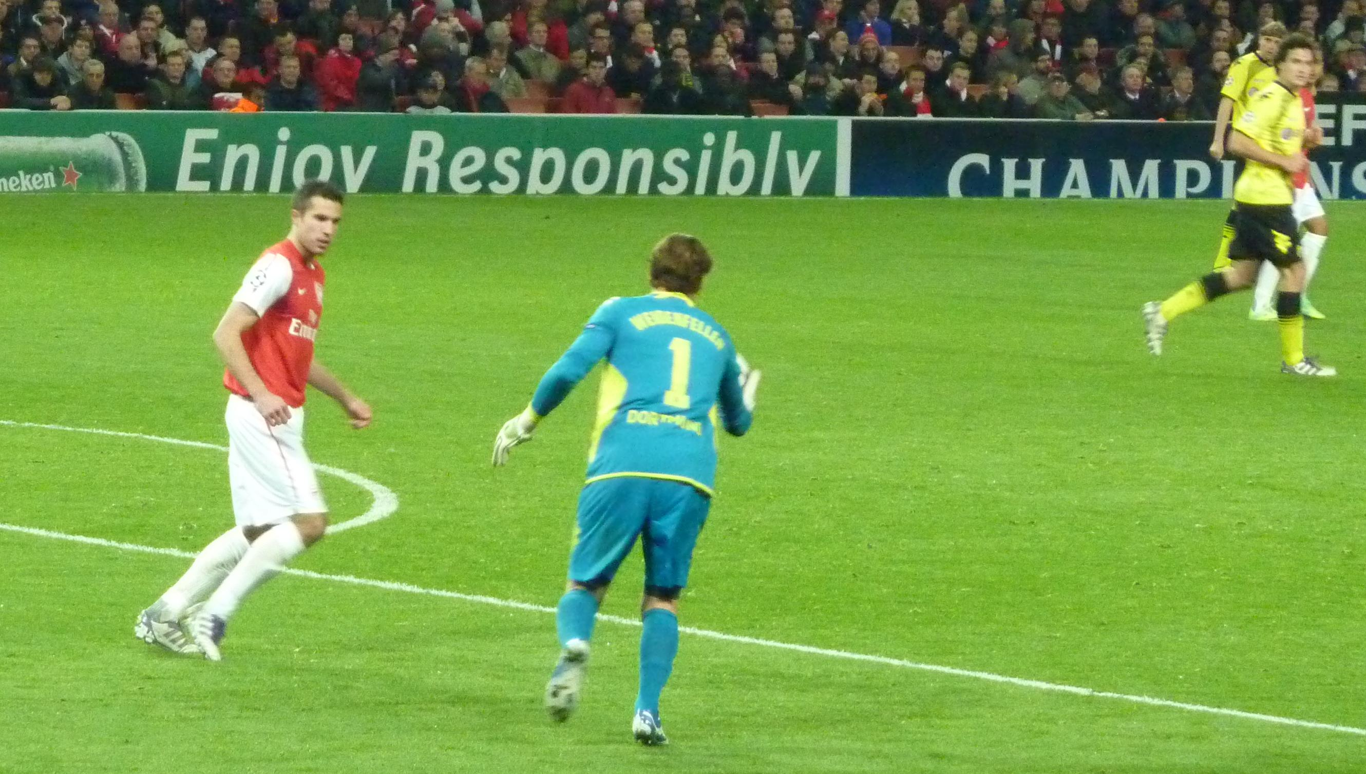 Roman Weidenfeller and Borussia Dortmund against Robin Van Persie and Arsenal in the UEFA Champions League.